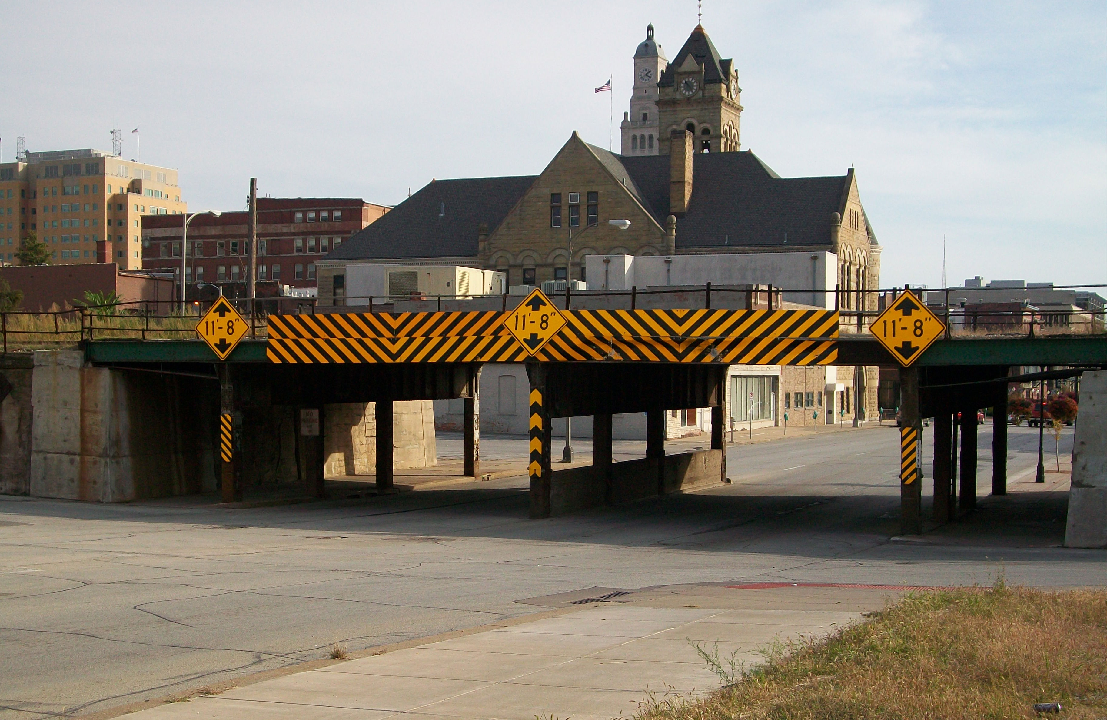 Truck Eating Bridge on US Highway 61 south in Davenport, Iowa. (Apparently Harrison St. under the Iowa Interstate Railroad near 5th Street; this became U.S. Route 61 Business when U.S. Route 61 was rerouted onto Interstates.)